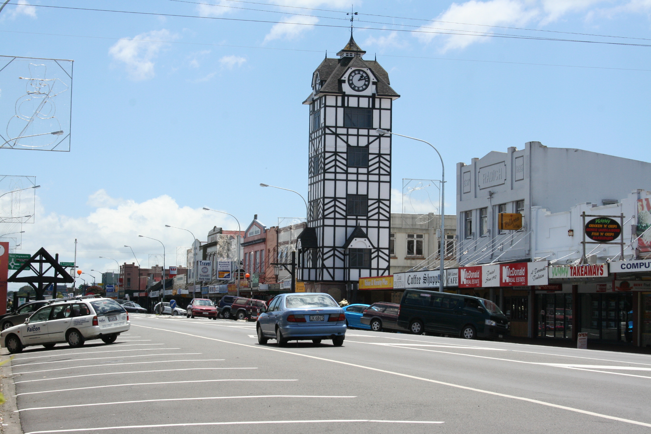 City of Stratford, North Island, Taranaki Region, New Zealand